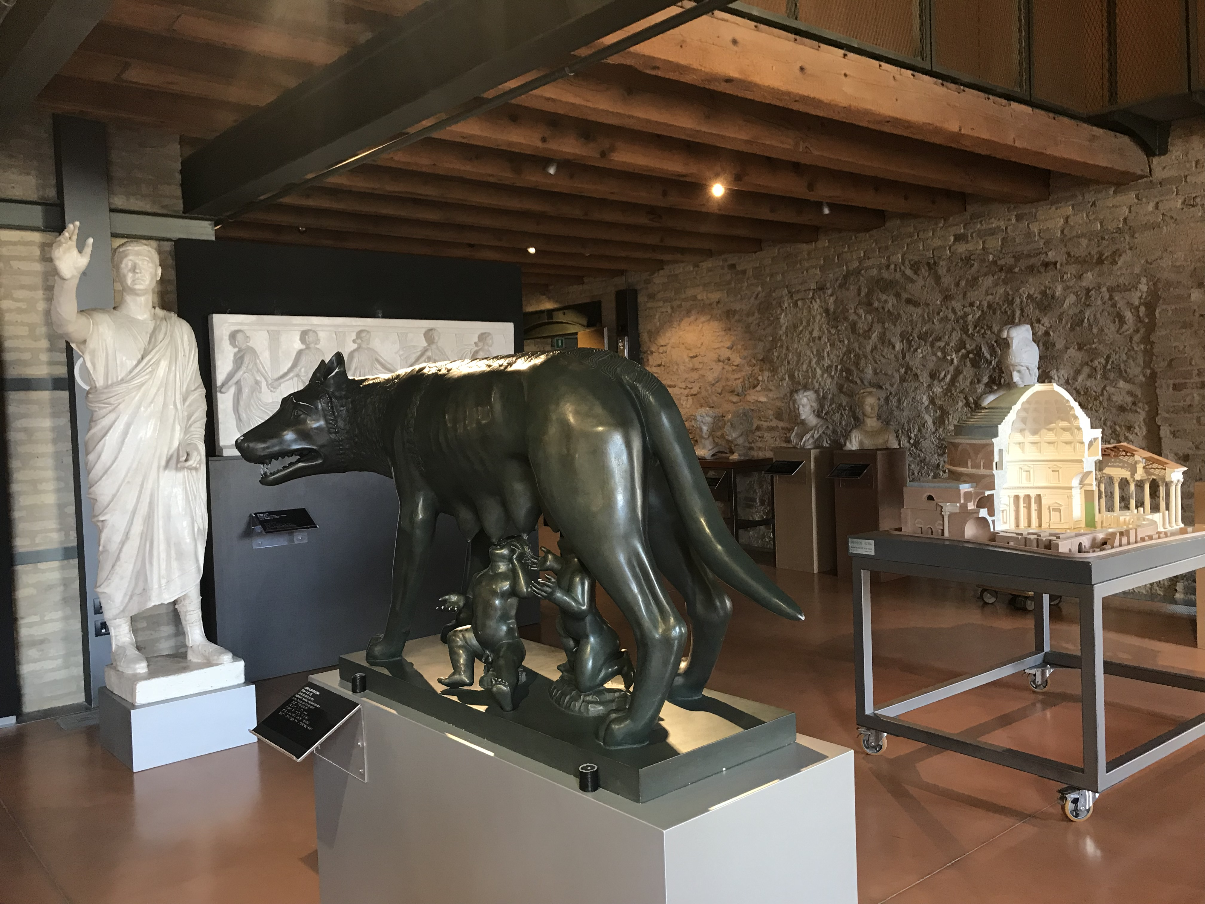 Roman section of the Homer State tactile Museum